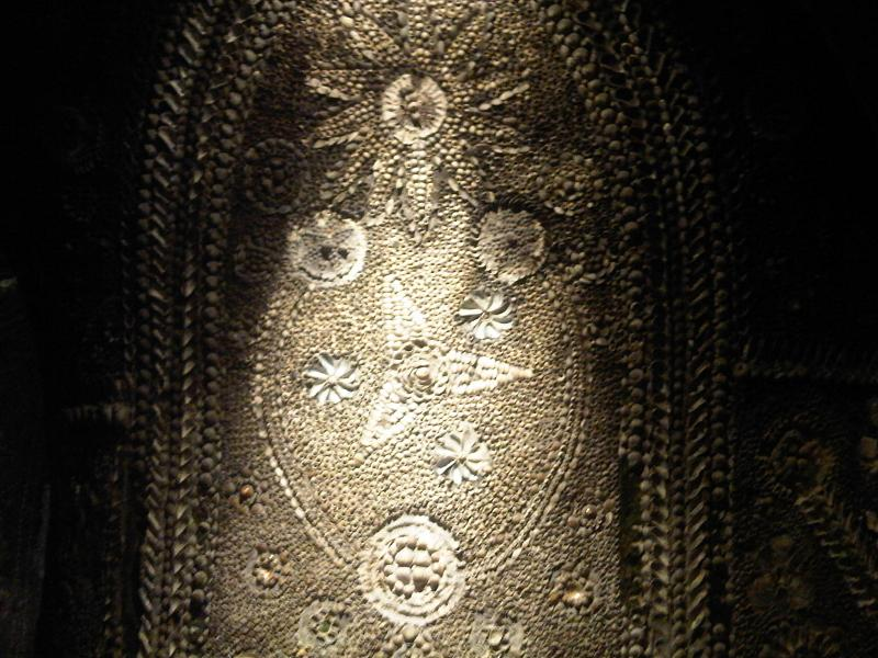 The Shell Grotto is an ornate subterranean passageway in Margate, Kent, UK. Almost all the surface area of the walls and roof is covered in mosaics created entirely of seashells, totalling about 2,000 square feet (190 m2) of mosaic, or 4.6 million shells. It was discovered in 1835 but its age remains unknown. The grotto is a Grade I listed building and is open to the public.